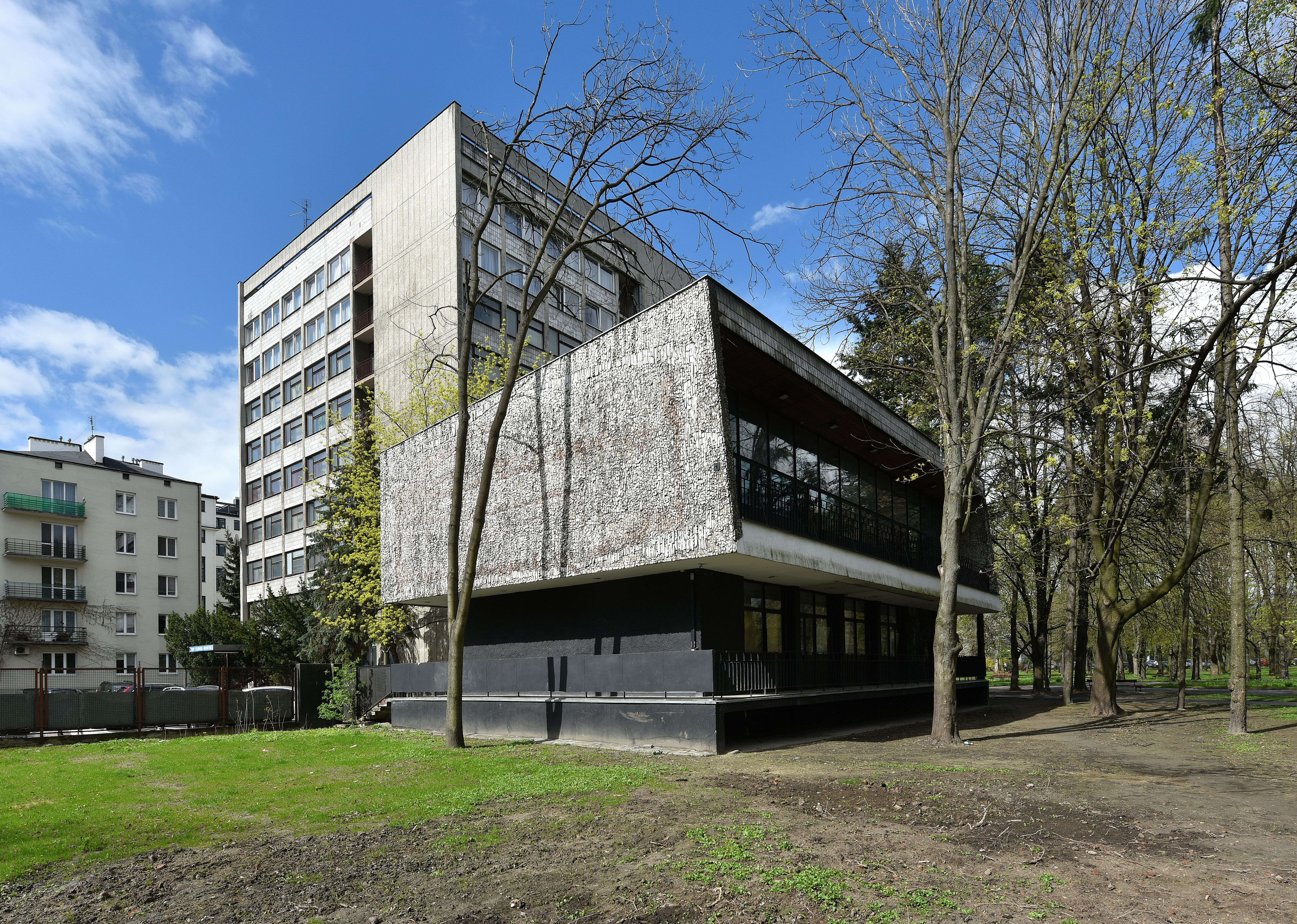 Syreni Śpiew pavilion in Warsaw